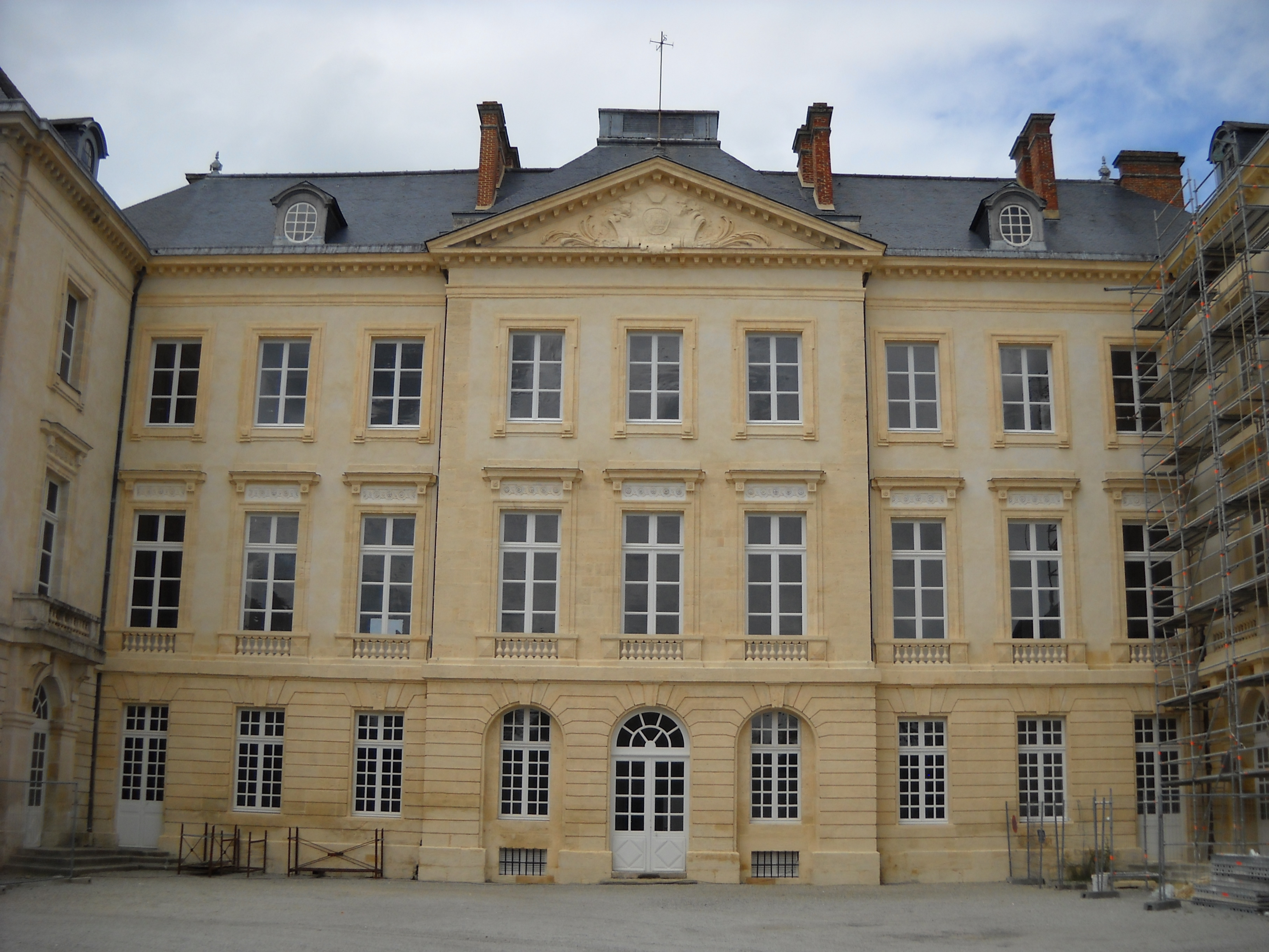 The Argentré palace, in Sées, Orne, France.